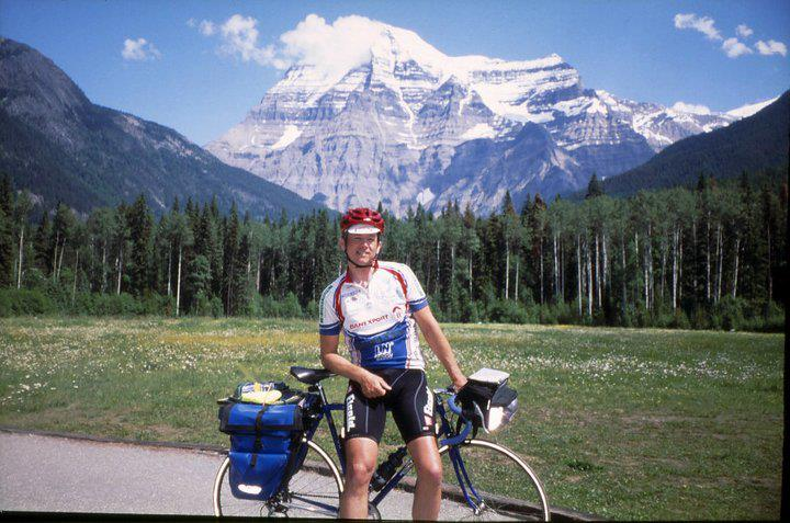 Lars Nielsen in Canada